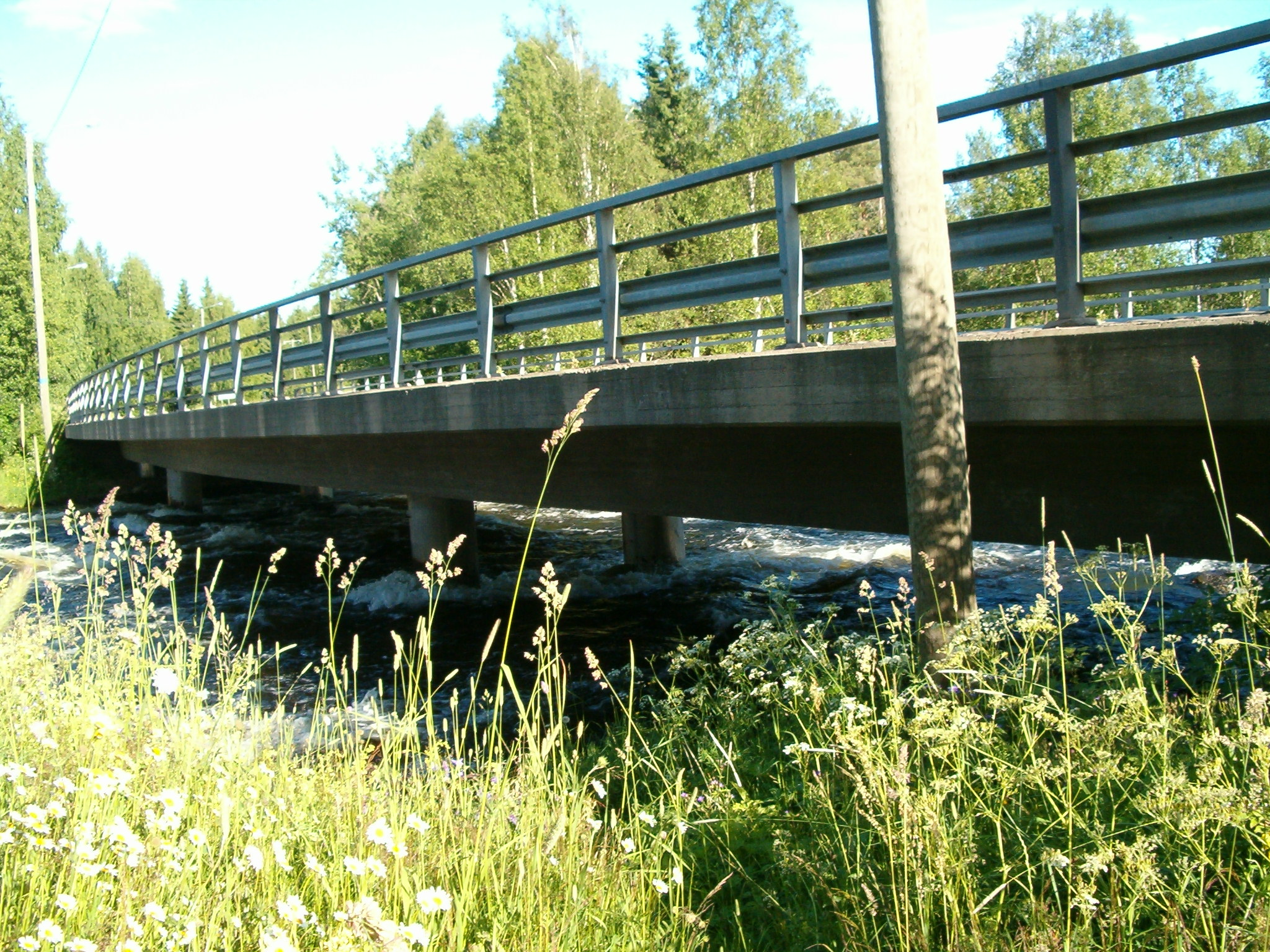 Bridge of Kermankoski rapids on the regional road 476 in Heinävesi, Finland.